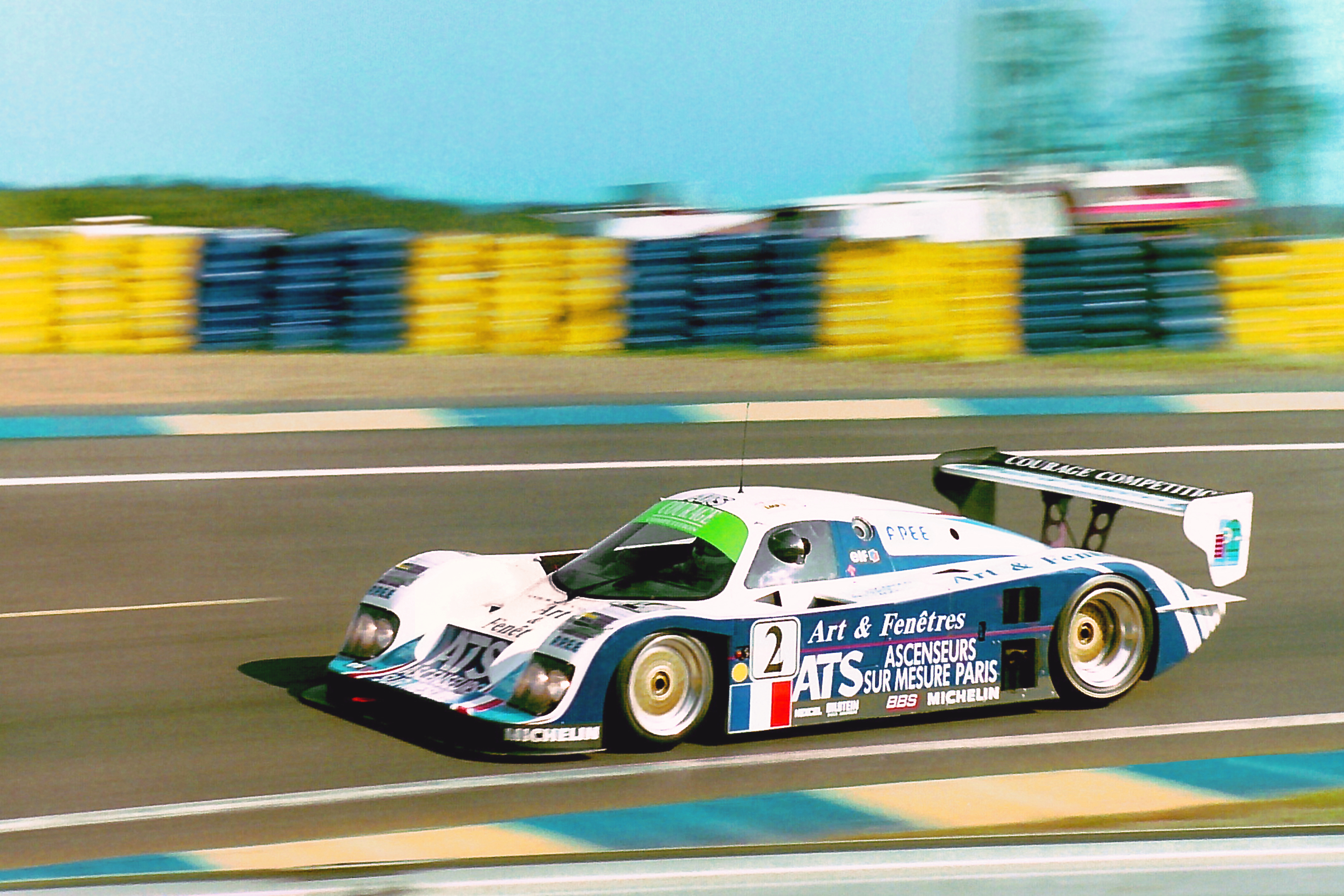 Courage C32LM - Alain Ferte, Henri Pescarolo & Franck Lagorce in the Esses at the 1994 Le Mans